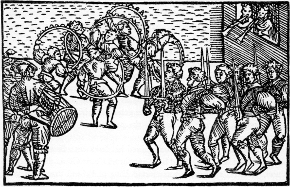 Sword dance, from: Historia de Gentibus Septentrionalibus